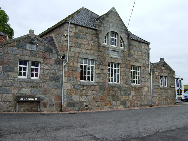 Garlogie Mill Power House, now a museum containing a rare beam engine, Garlogie, Aberdeenshire